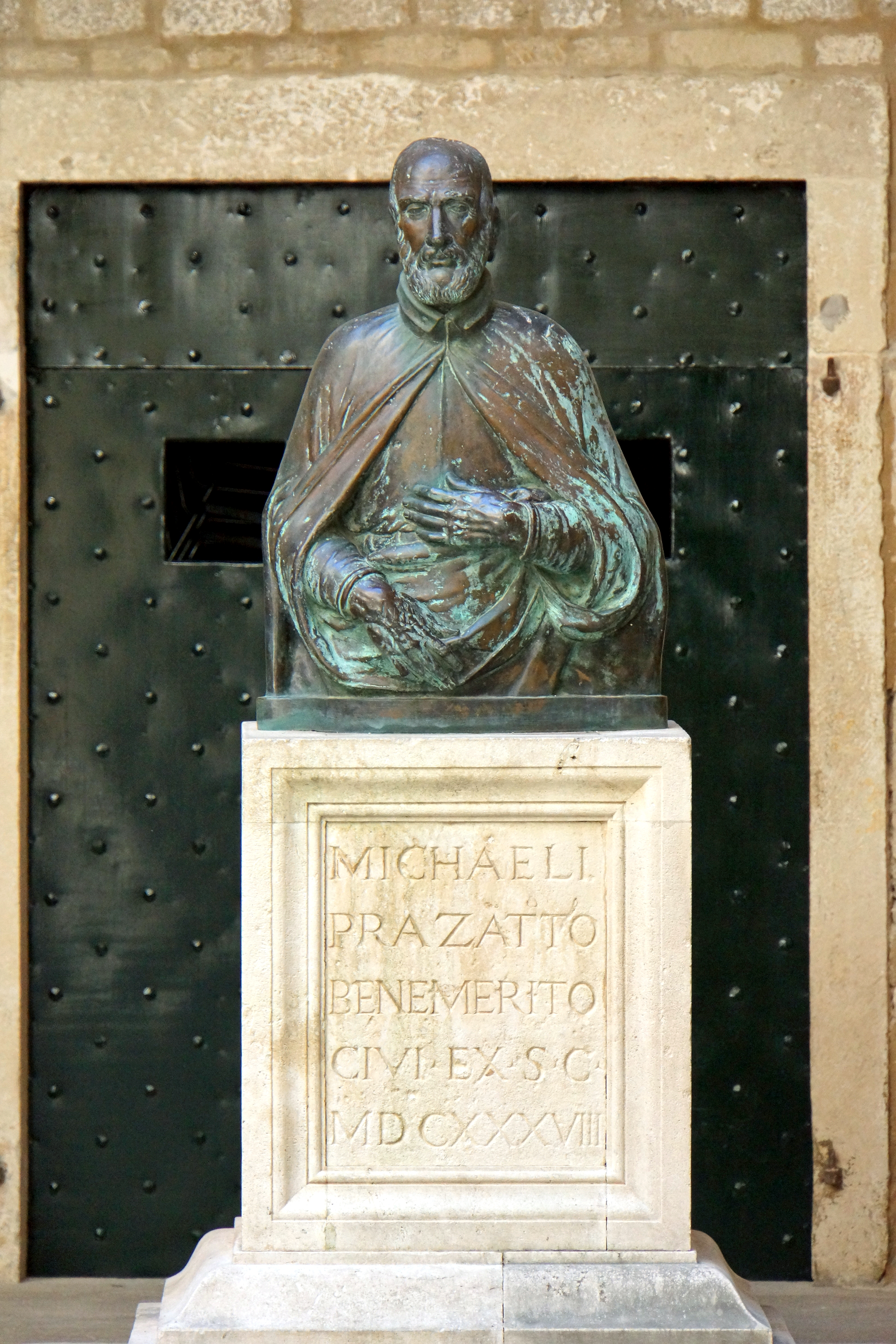 PLEASE,invitations or self promotion in your comments, THEY WILL BE DELETED. My photos are FREE for anyone to use, just give me credit and it would be nice if you let me know, thanks - NONE OF MY PICTURES ARE HDR On the ground floor of the atrium ( Rector's palace) the senate had a monument erected in 1638 to Miho Pracat, the citizen of merit. He was a rich ship owner from Lopud who left his immense wealth to the Republic for the charitable cause. Because of this most generous gesture the Republic was indebted to honour him.